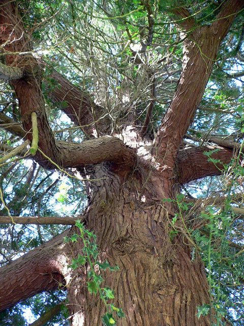 Impressive evergreen tree Tall, wide and full of character at the cemetery grounds at Chudleigh